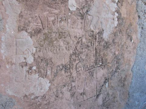 Photo of cornerstone of 1725 schoolhouse building in Totatiche, Jalisco